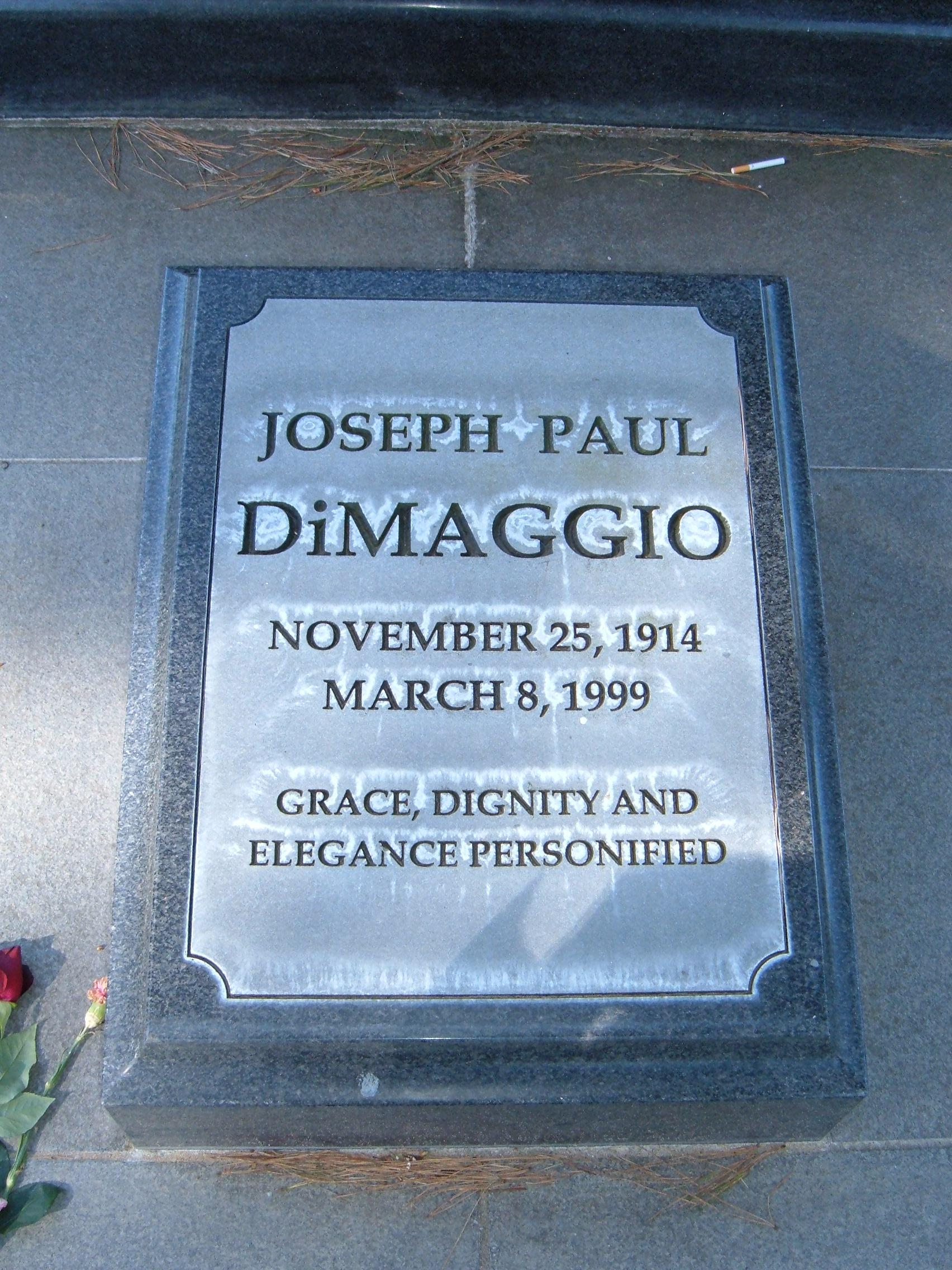 The gravestone of Joe DiMaggio in front of his mausoleum at Holy Cross Cemetery, Colma, California.